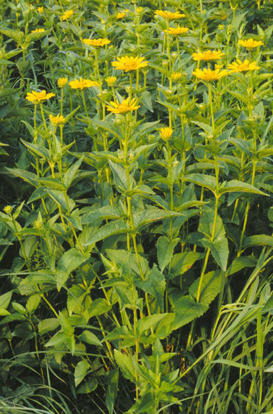 False Sunflower/Ox-Eye